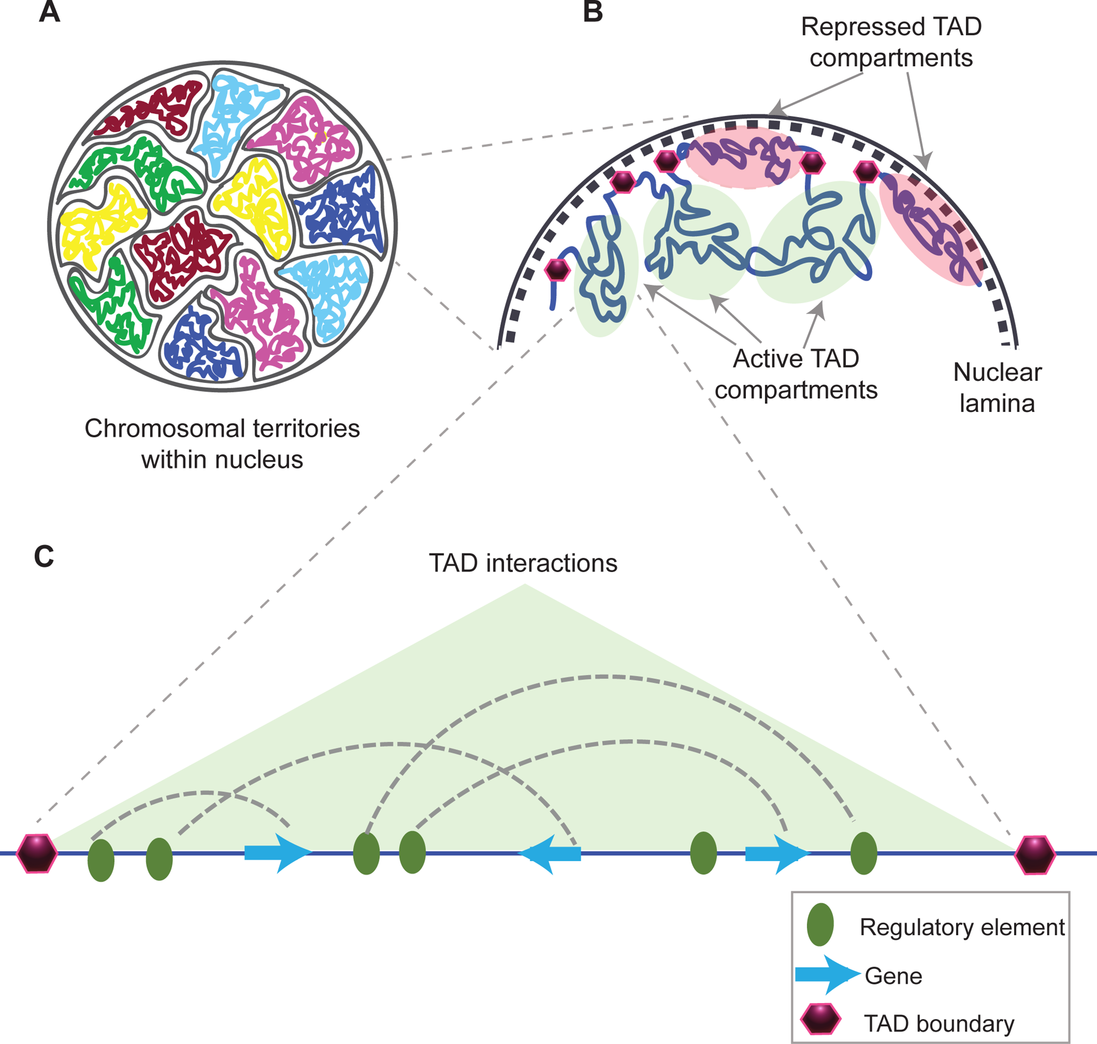 Author description: "Fig 1. Structural organization of chromatin (A) Chromosomes within an interphase diploid eukaryotic nucleus are found to occupy specific nuclear spaces, termed chromosomal territories. (B) Each chromosome is subdivided into topological associated domains (TAD) as found in Hi-C studies. TADs with repressed transcriptional activity tend to be associated with the nuclear lamina (dashed inner nuclear membrane and its associated structures), while active TADs tend to reside more in the nuclear interior. Each TAD is flanked by regions having low interaction frequencies, as determined by Hi-C, that are called TAD boundaries (purple hexagon). (C) An example of an active TAD with several interactions between distal regulatory elements and genes within it."